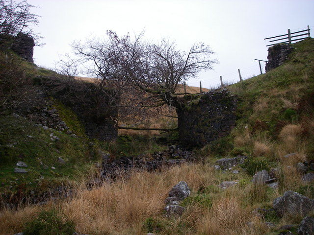 Brecon Forest Tramroad These are the remains of a bridge dating from the 1820's over the Nant Cae, a tributary of the Nant Gihirych. A wooden structure once spanned the gap between the stone abutments allowing the horse-drawn trams to cross the stream.